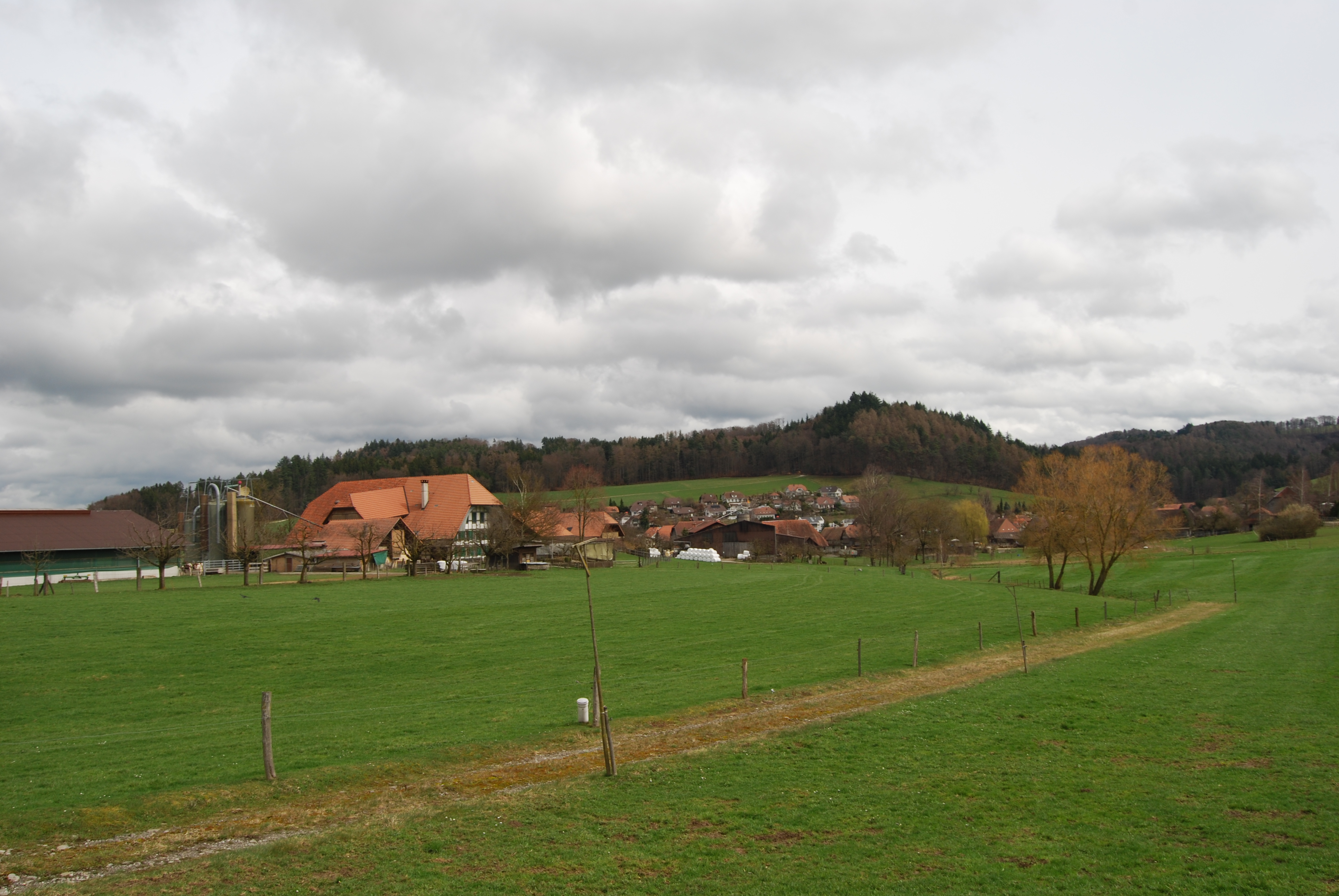 Hettiswil, municipality of Krauchthal, canton of Bern, SwitzerlandEsperanto: Hettiswil, komunumo Krauchthal, Kantono Berno, Svislando